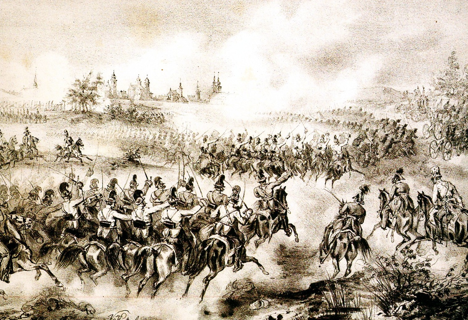 Lithograph(?) of the Battle of Temesvár in the Hungarian Revolution of 1848